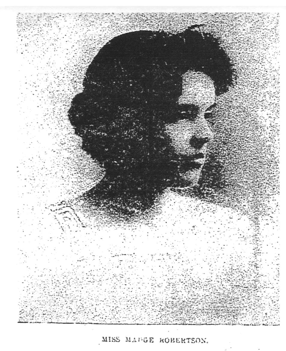 Madge Robertson made her name as a writer in Canada and the United States in the 1890s.